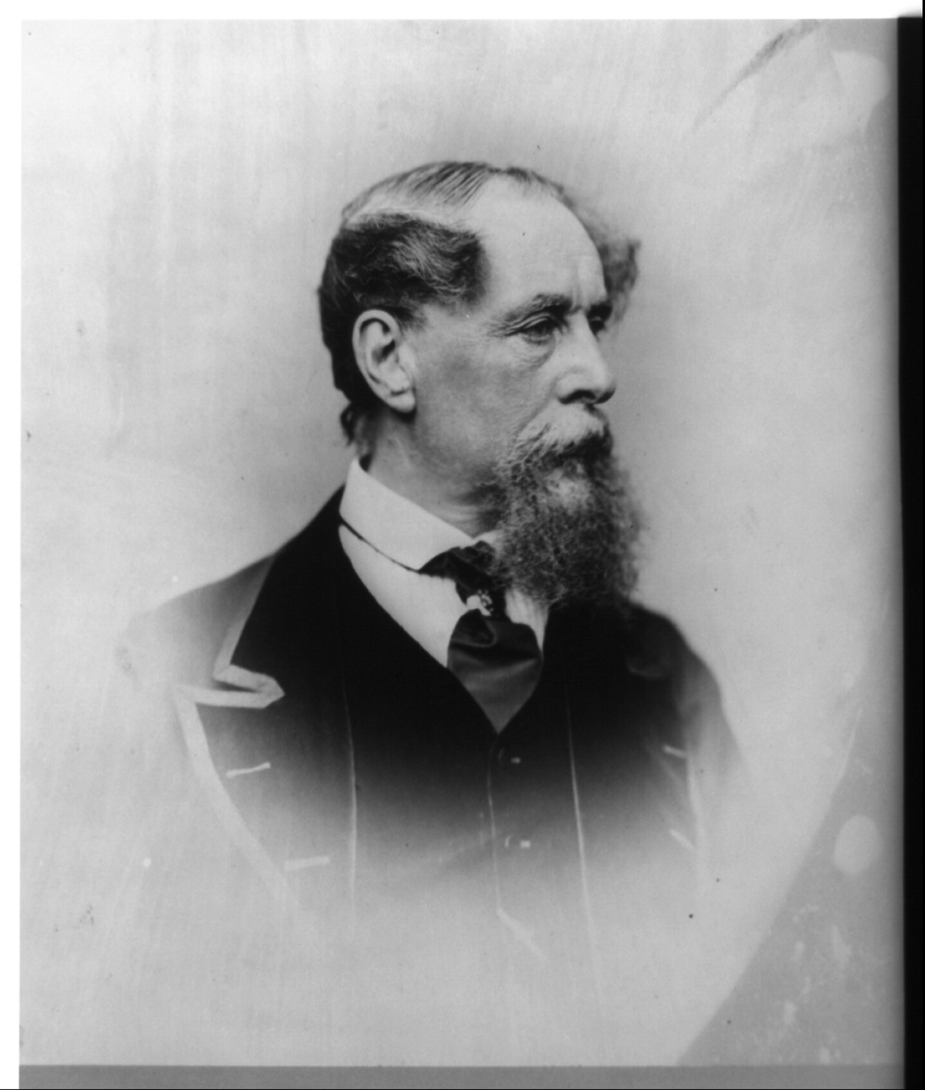 Title: Charles Dickens Abstract/medium: 1 photographic print.